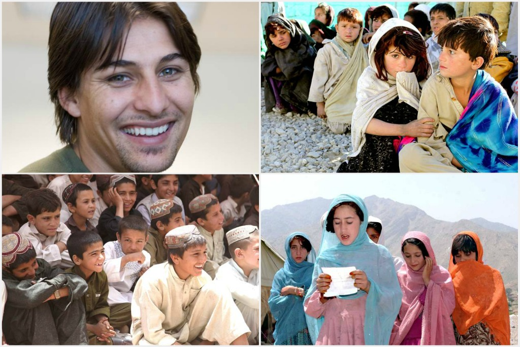 Collage of images showing the Pashtun people. They make up the largest ethnic group in Afghanistan and the second largest in neighboring Pakistan.